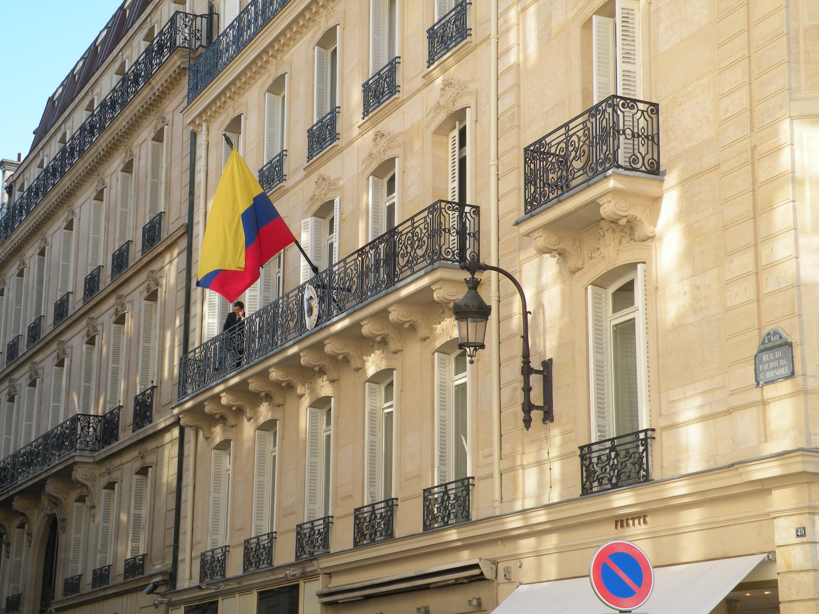 Colombian embassy in France, 22 rue de l'Elysée et (ici) 49 rue du Faubourg Saint-Honoré, Paris